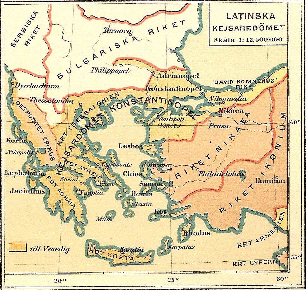 Historic map over the Latin empire